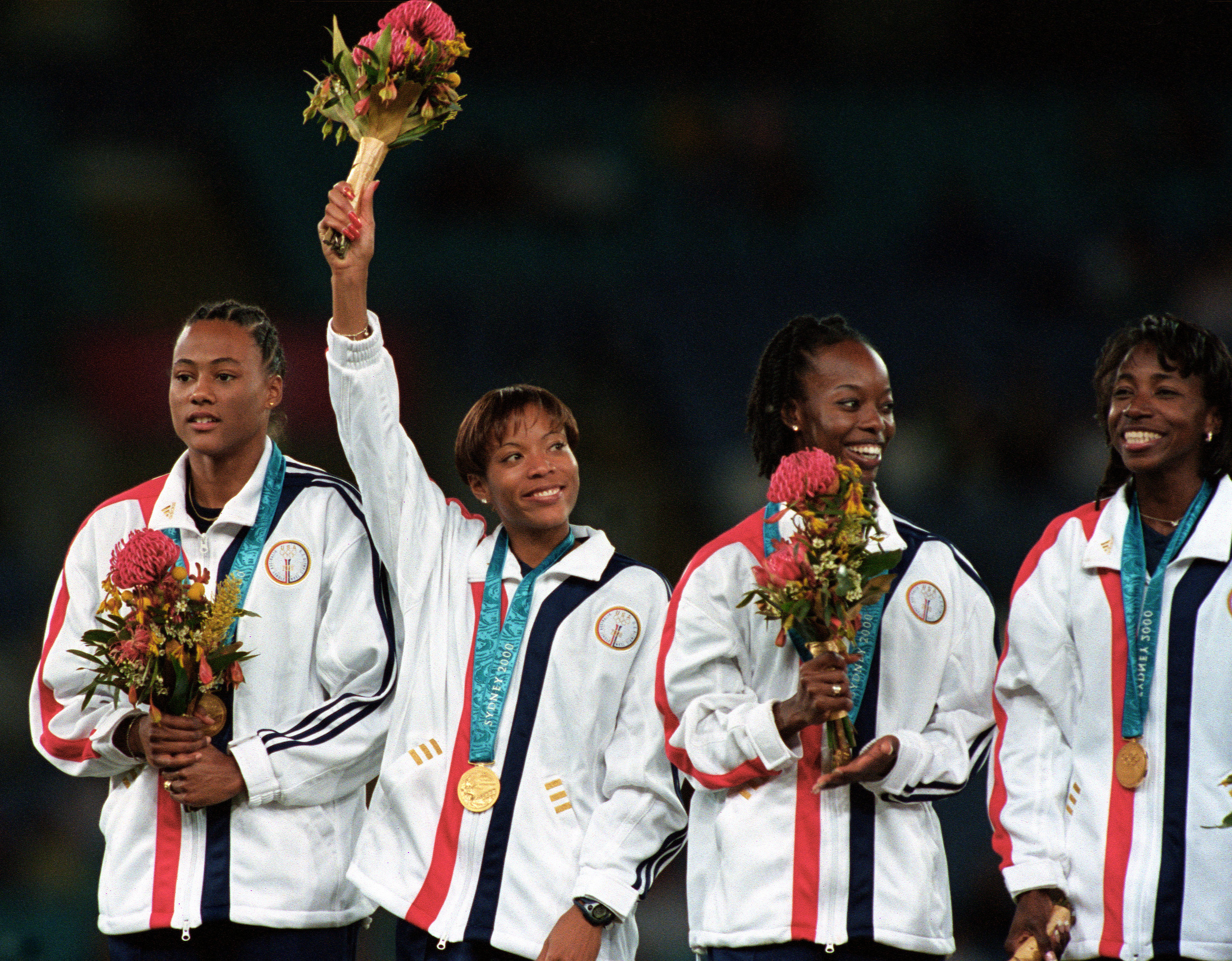 La Tasha Colander-Richardson raises a bouqet of flowers after accepting the Gold Medal with other members of the US Women's 4×400 Relay team on Saturday, September 30th, 2000 at the 2000 Sydney Olympic Games. Marion Jones, LaTasha Colander, Monique Hennagan, Jearl Miles Clark